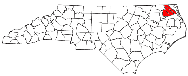 Locator map of the Elizabeth City Micropolitan Statistical Area in the northeastern part of the U.S. state of North Carolina.